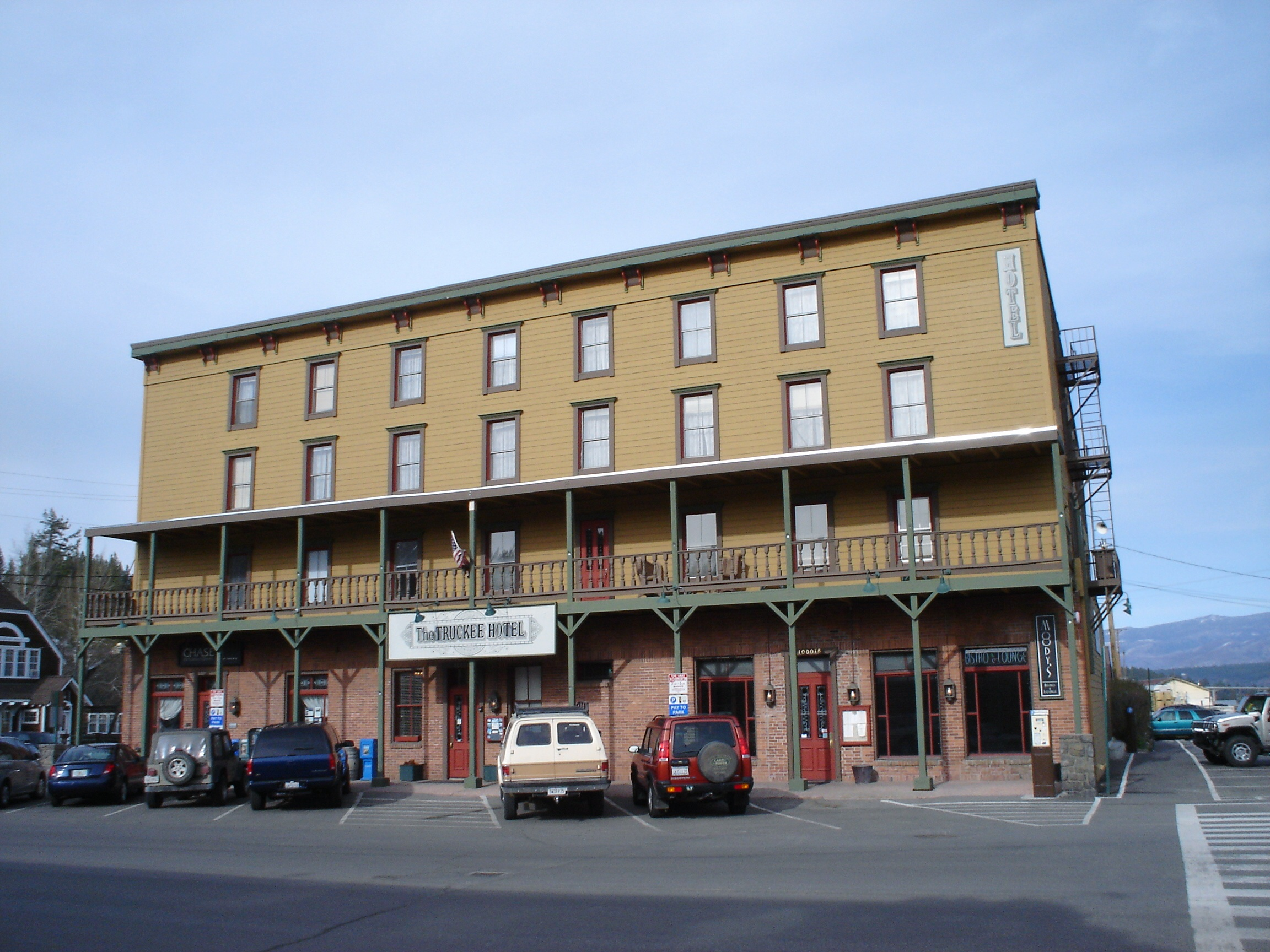 Truckee Hotel exterior — in Truckee, California. Author:Robert E. Nylund Source:Personal photos